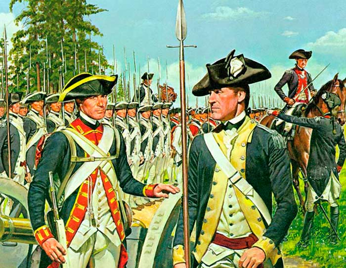 The American Soldier, 1781: The troops in this painting wear the uniforms prescribed in the regulations of 1779 and supplied at the time of the Yorktown campaign - blue coats with distinctive facings for the infantry regiments from four groups of states: New England; New York and New Jersey; Pennsylvania, Delaware, Maryland, and Virginia; and the Carolinas and Georgia. All of the infantry coats were lined with white and had white buttons. All troops wore white overalls and waistcoats. A Lieutenant in the right foreground is recognizable by the epaulette on his left shoulder. (U.S. Army Center of Military History).